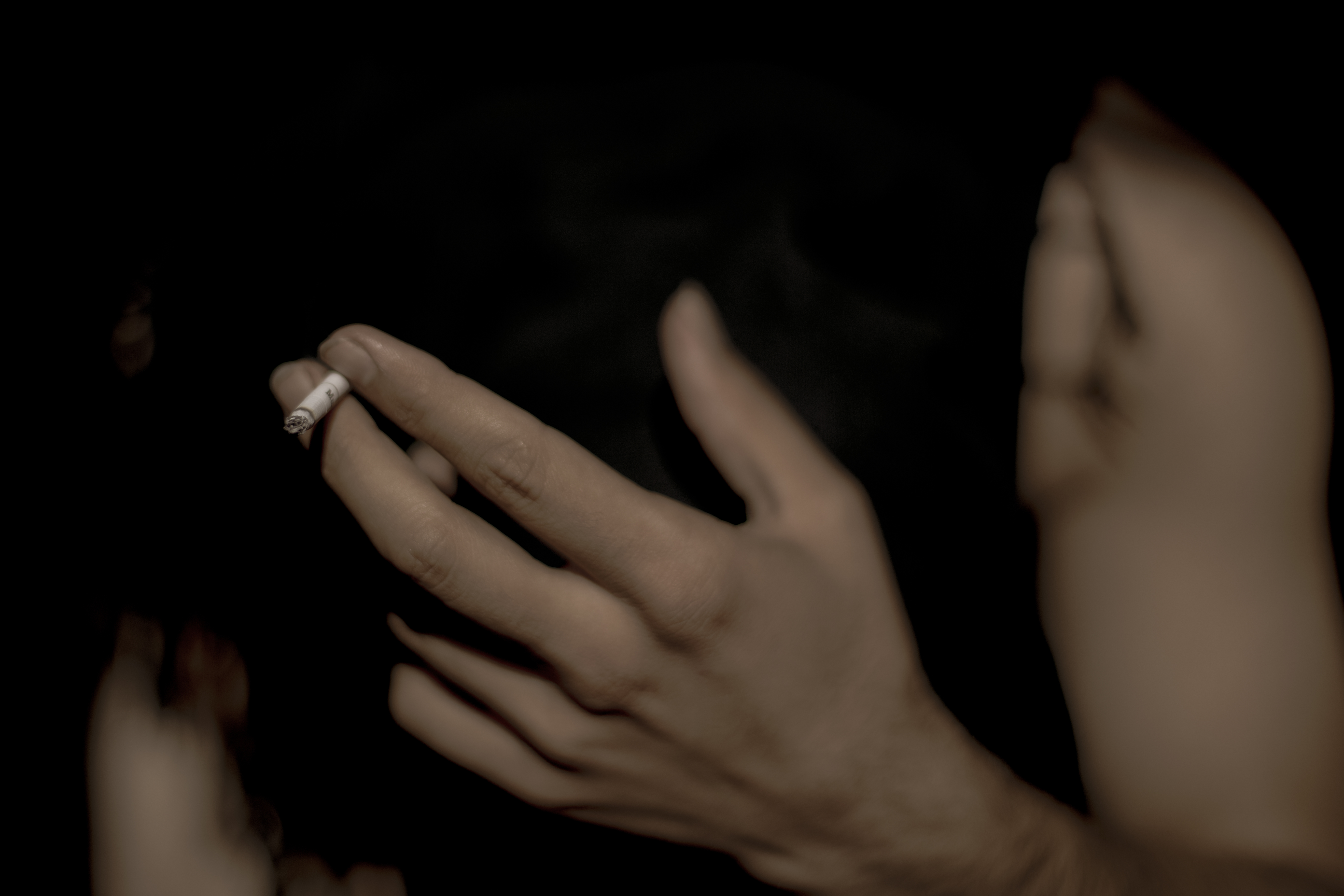 Smoking cessation is the process of discontinuing tobacco smoking. Tobacco smoke contains nicotine, which is addictive and can cause dependence.